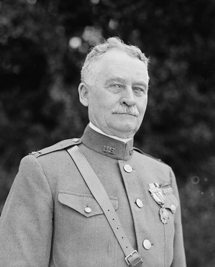 Loyd Brett